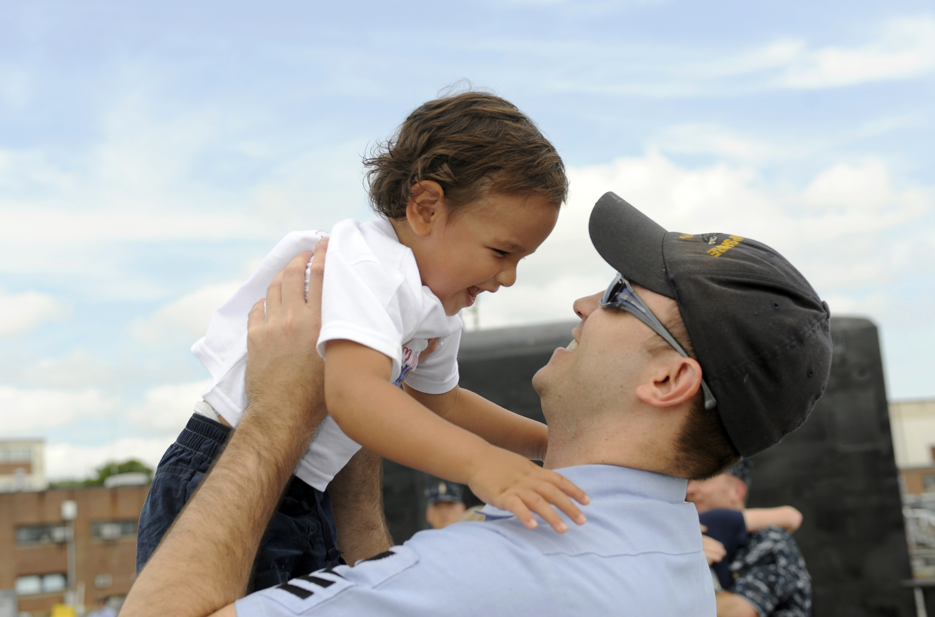 GROTON, Conn. (July 22, 2009) Culinary Specialist 1st Class Joseph Appold hugs his 1-year-old son Kameron upon the return of the Virginia-class attack submarine USS New Hampshire (SSN 778) to Submarine Base New London. New Hampshire returned from her maiden deployment and was the first Virginia-class submarine to be deployed to the U.S. European Command area of responsibility. (U.S. Navy photo by John Narewski/Released)